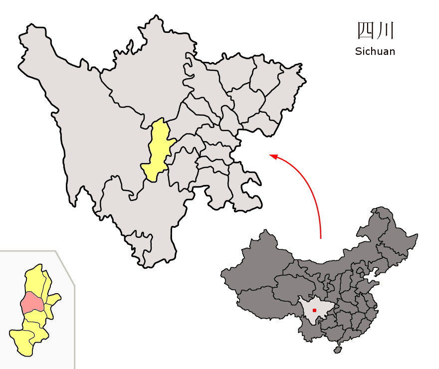 Location of Tianquan County (pink) and Ya'an Prefecture (yellow) within Sichuan province of China Map drawn in october 2007 using various sources, mainly : Sichuan province administrative regions GIS data: 1:1M, County level, 1990 Sichuan Counties map from